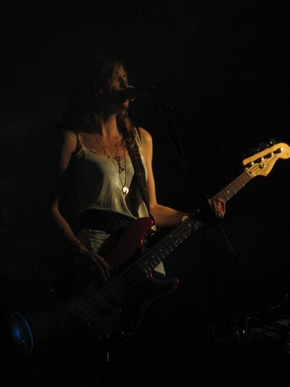 Amanda Tannen from stellastarr* at Mèxico concert 2008